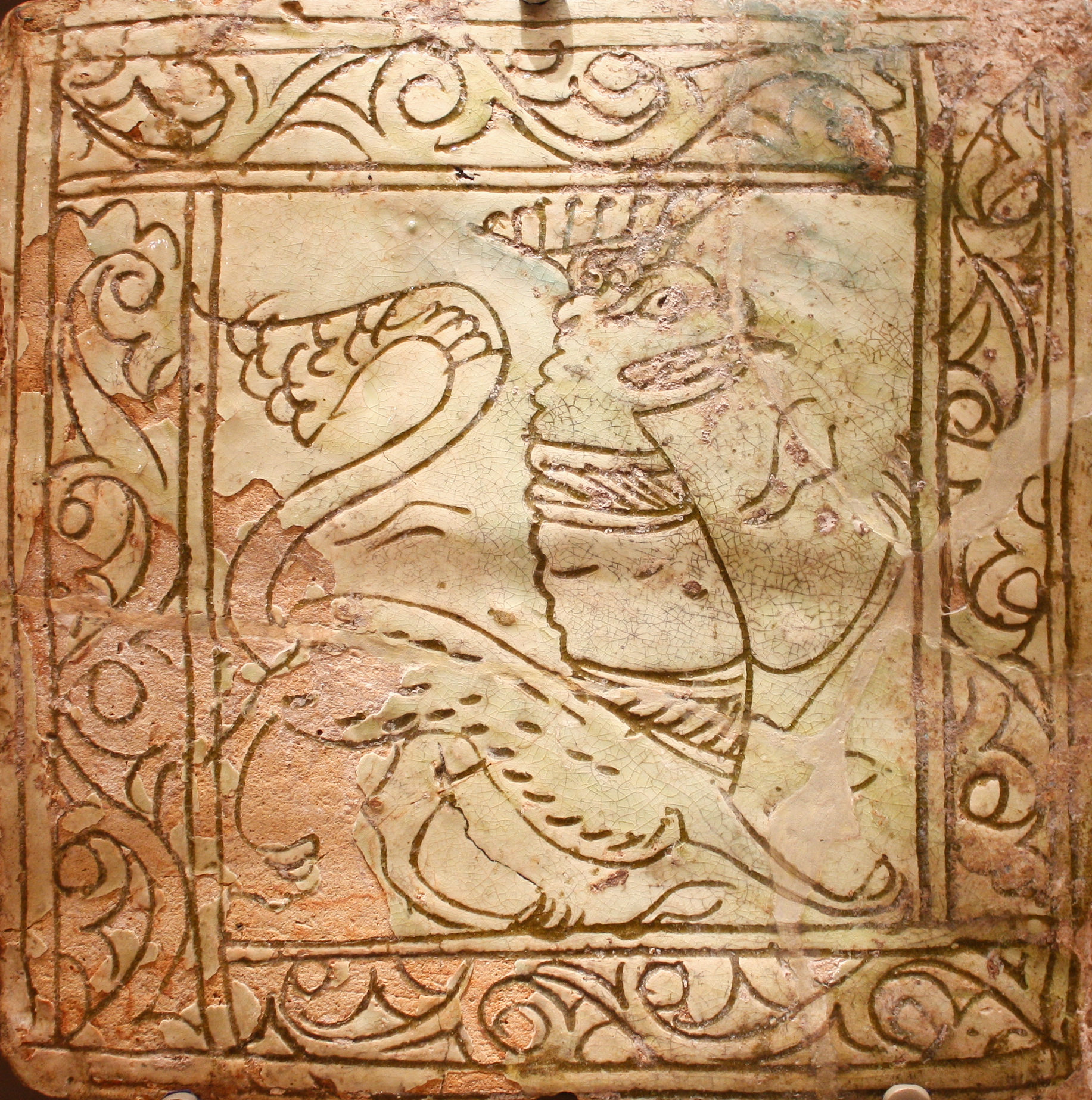 Glazed terracotta tile, Tyre, 12th-13th centuries A.D. (National Museum of Beirut).